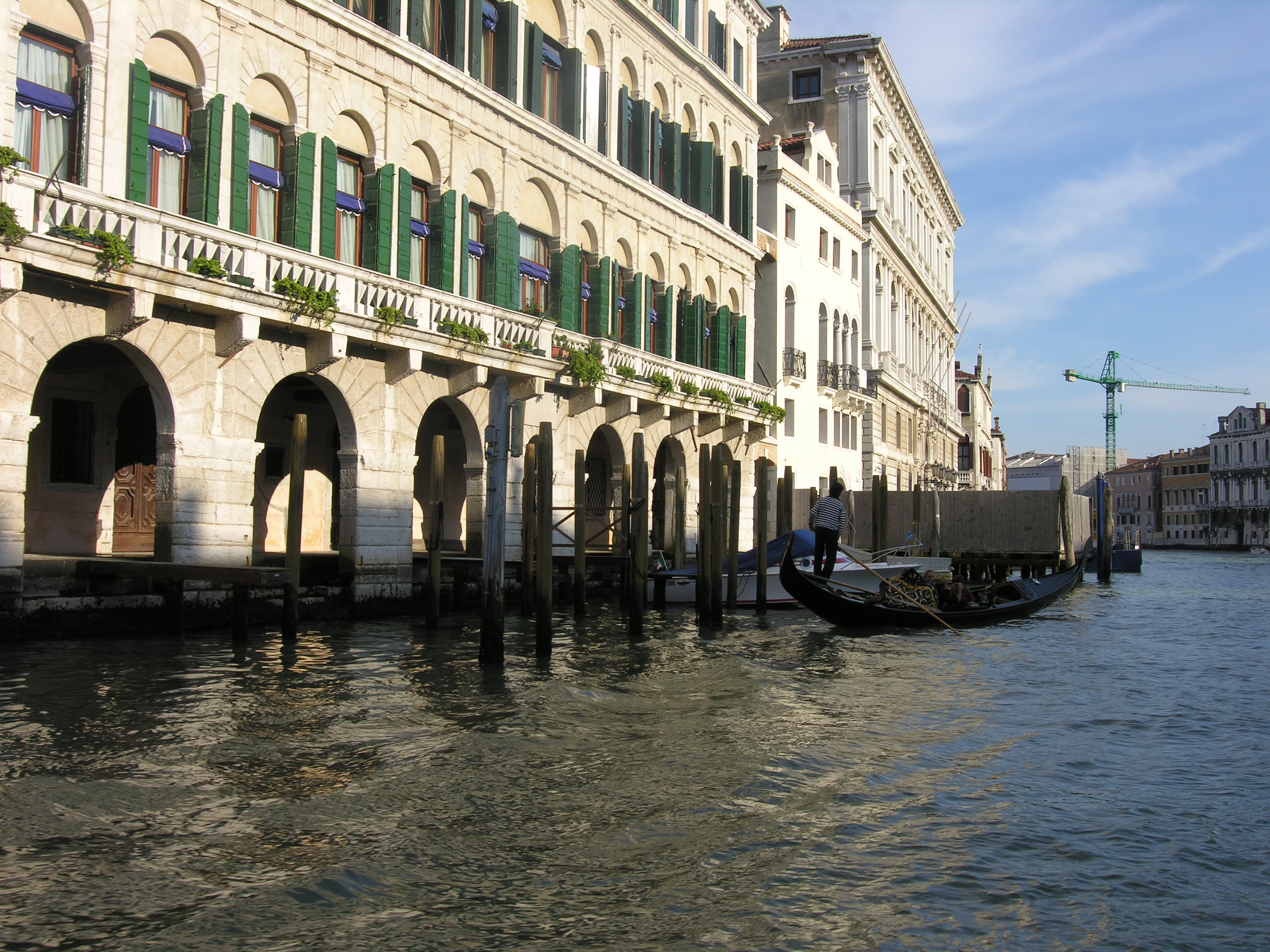 Venice, Italy